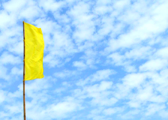 Clouds